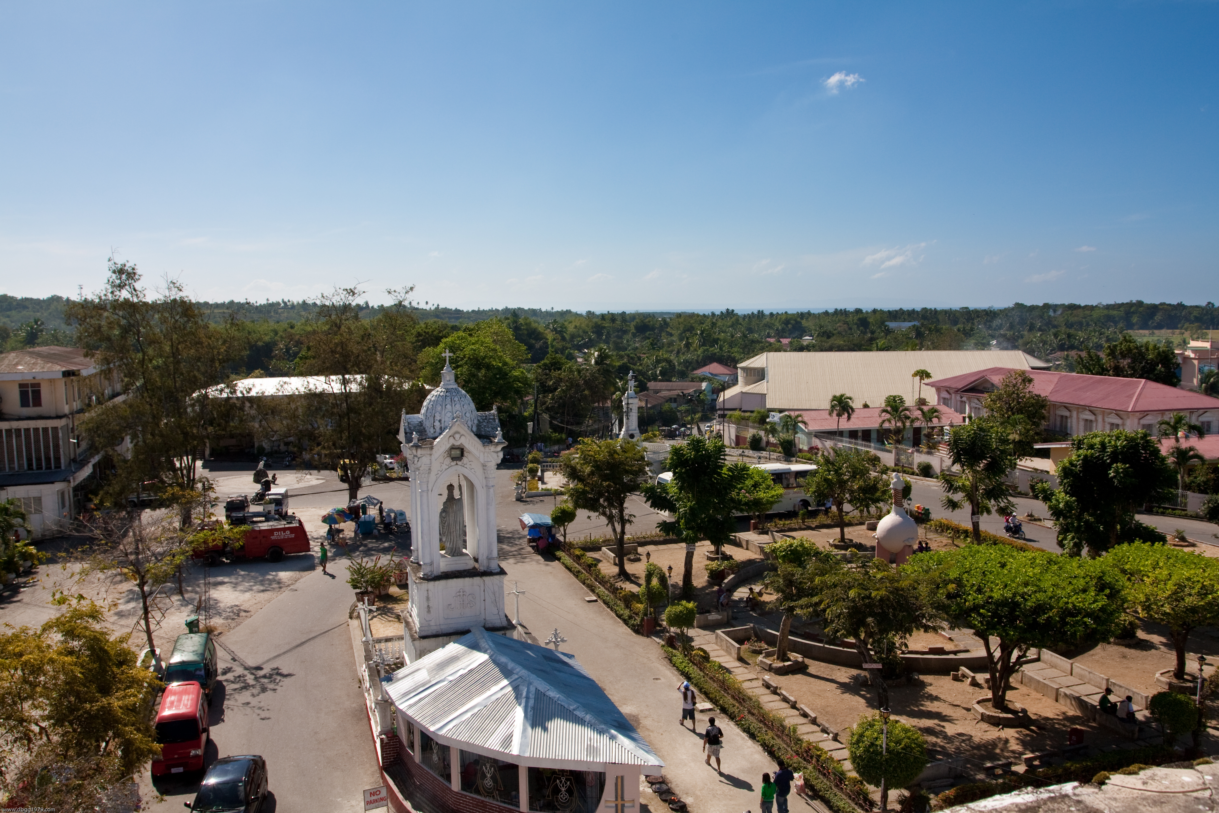 A view from the bell tower of St. Catherine of Alexandria Church, Carcar, Cebu, Philippines